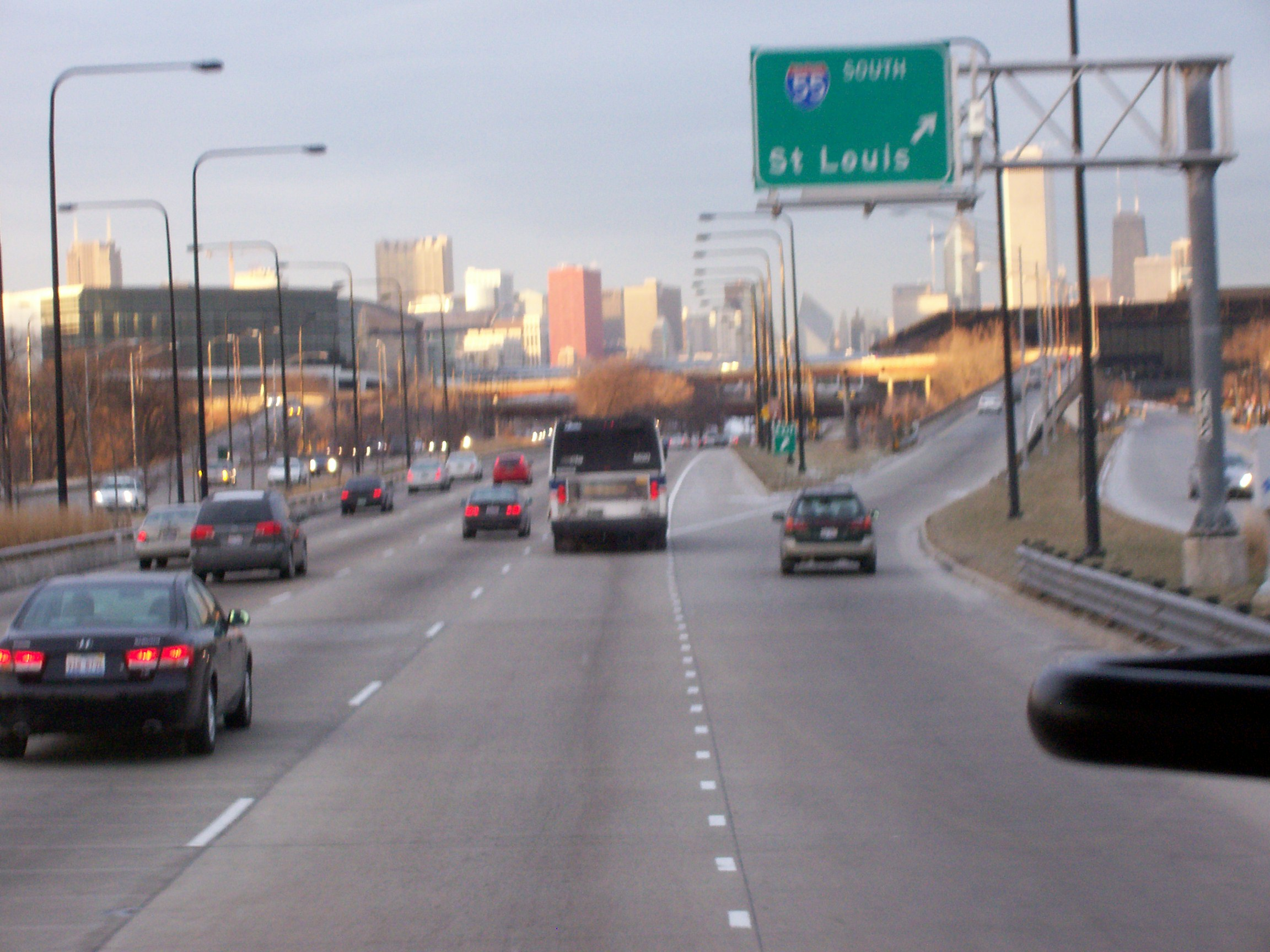 The northern terminus of Interstate 55 while travelly northbound on U.S. Router 41 in Chicago, Illinois, USA.